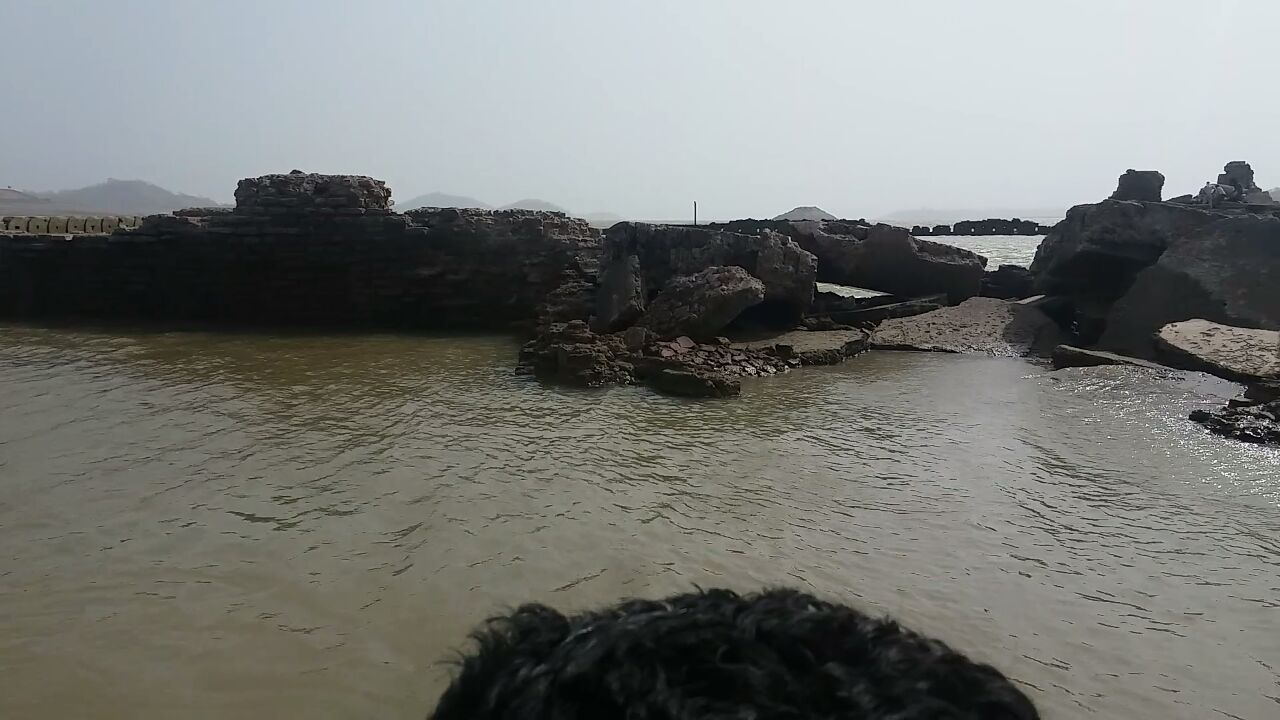 This is most rarest and hidden fort in (Tapi River) ukai dam. This fort is visible only in summer when the level of water decreases. This fort belongs to gayakwadi dynasty and since ukai dam was build this fort was covered by water and during those days the forest was too dense and no one knew about it. According to locals this fort is also know as "vajpur ka kila" and even its too huge and large and even vast but its rarely seen when water completely decreases. Even treasure is present and locals also said that who ever try's to get the treasure they are killed by supernatural power present in that fort.